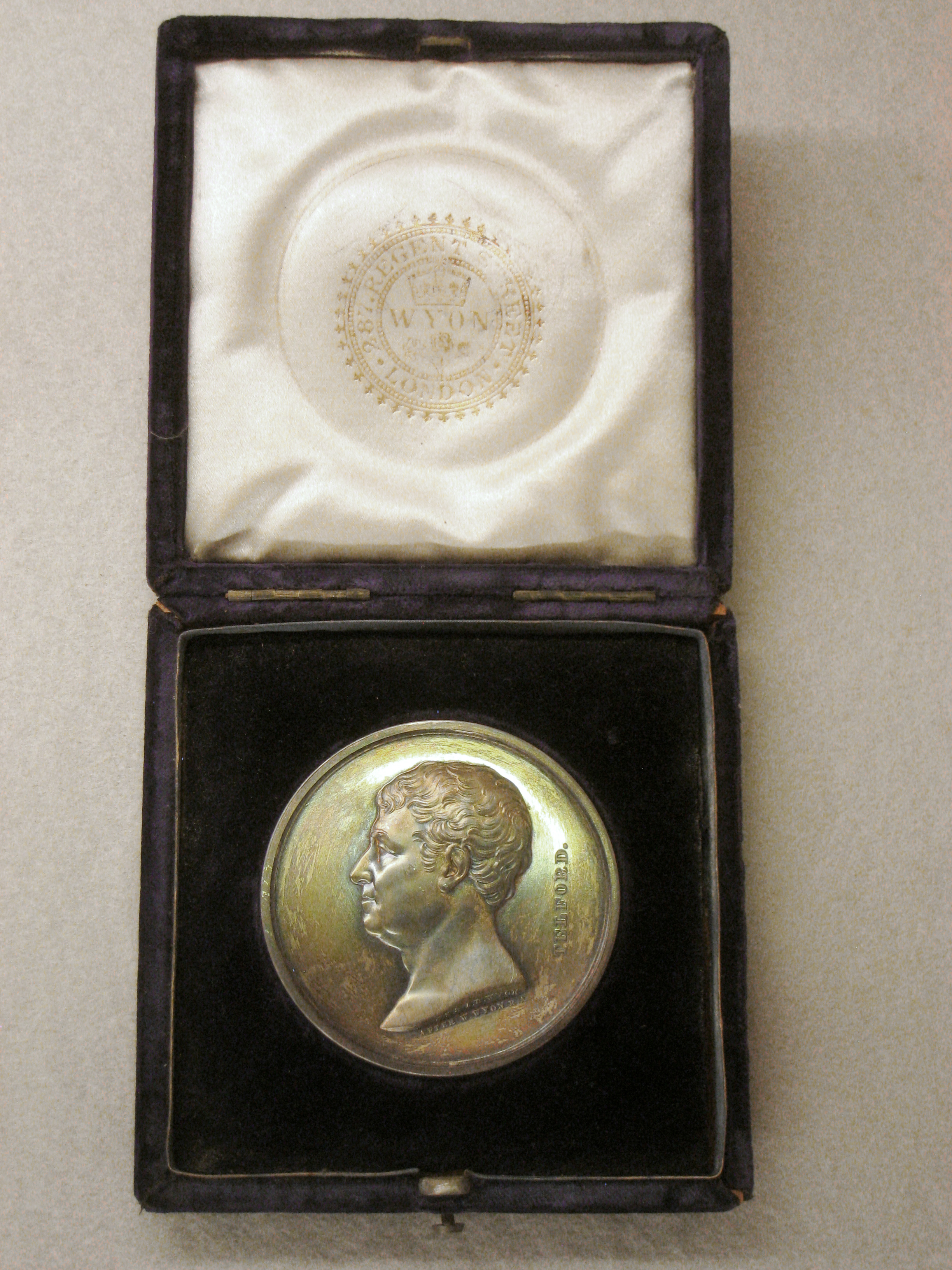 Lake Biwa Canal Museum of Kyoto, Kyoto, Japan. Note that the museum placed no restrictions on photography. Telford Medal.